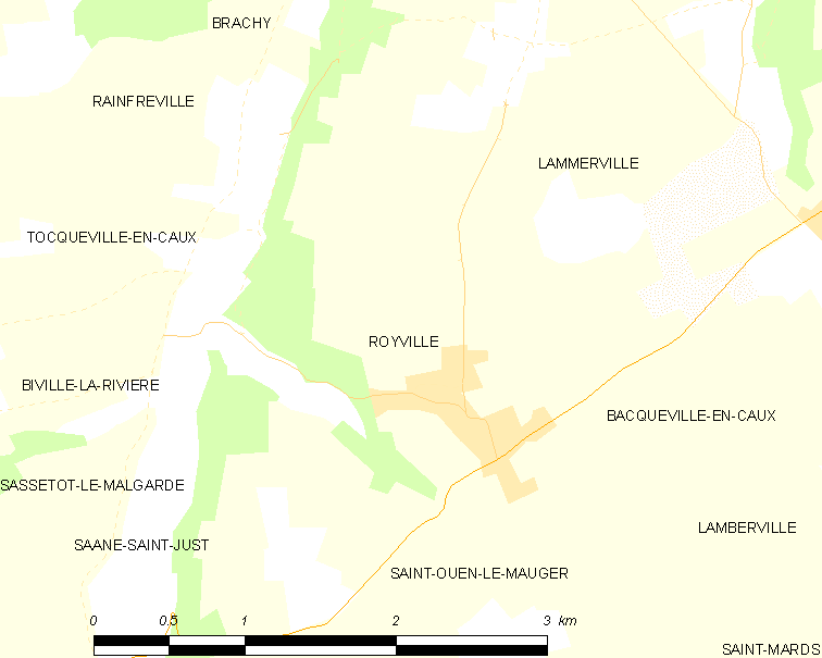 Map of French municipality Royville